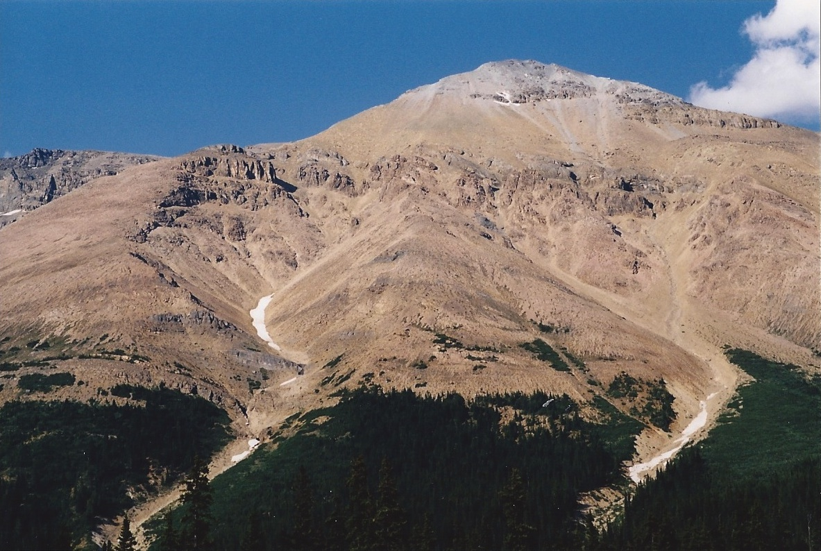 Observation Peak, Banff National Park, Alberta, Canada View from the Icefields Parkway near the Bow Summit. The summit is not the apparent highpoint but rather is behind and to the left.